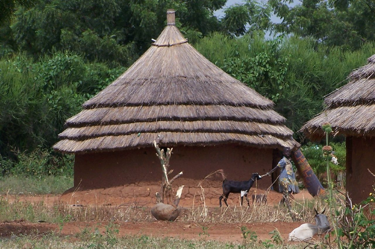 Thatched roof earthen walled hut of the Dinka, in Juba - South Sudan. Taken on December 30, 2005 - when the former Southern Sudan.